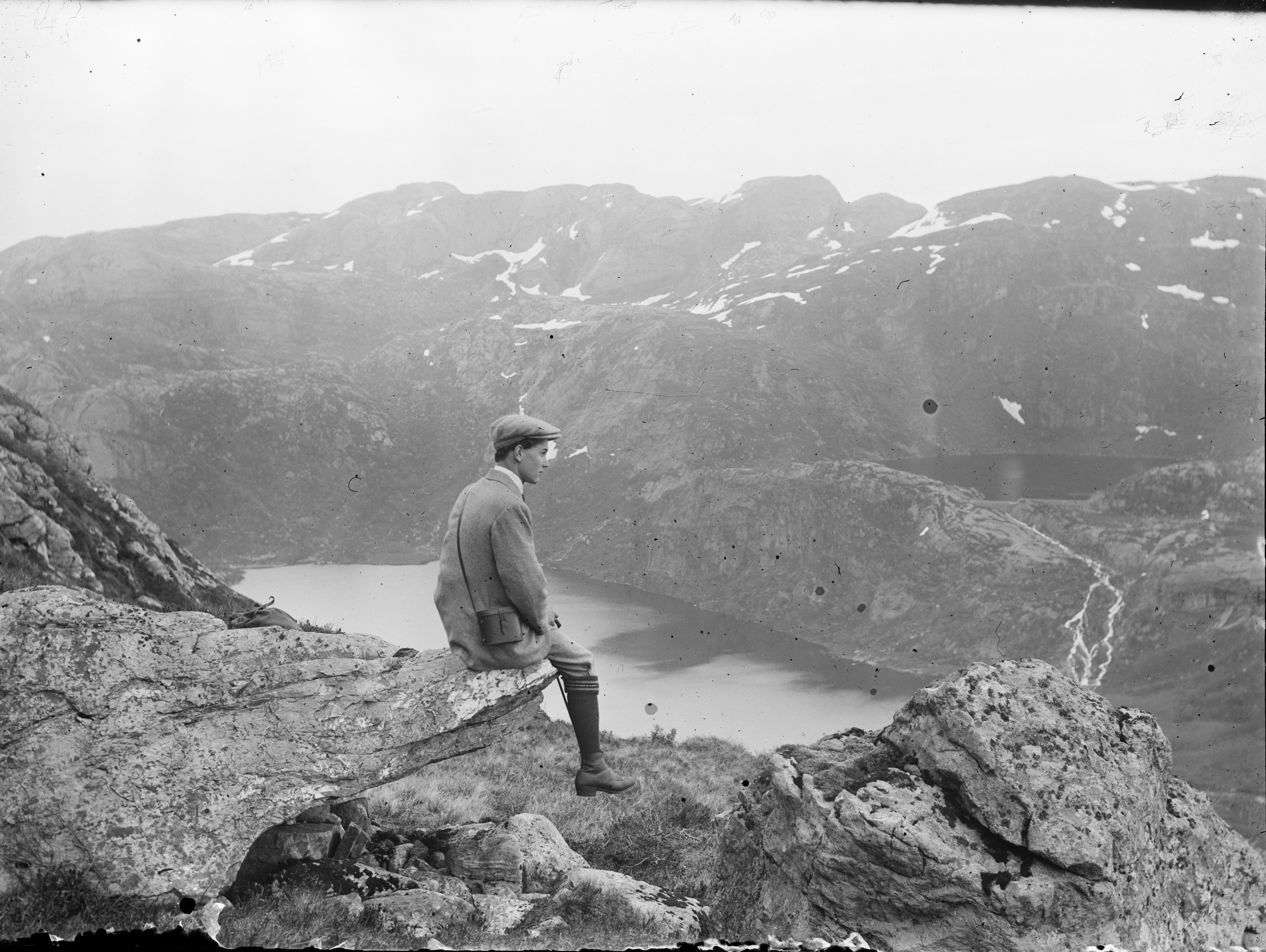 View of Stongfjorden from the mountain. Photographer: Paul Stang. SFFf-1989091.162962